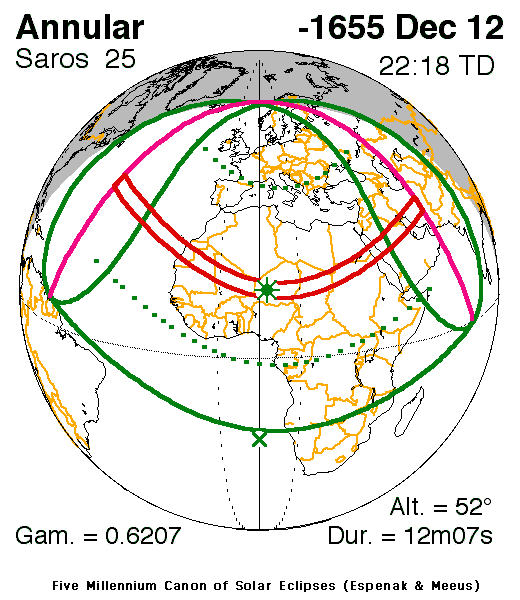 Solar eclipse map of path on earth. Solar eclipse of December 12, 1656 BC